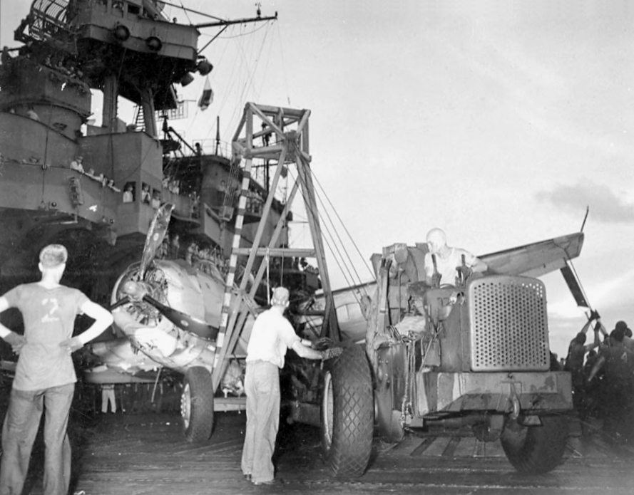 A U.S. Navy tractor pulls the battle-damged Grumman TBF-1 Avenger flown by Cliff Largess of Torpedo Squadron VT-10. The plane crash landed on the aircraft carrier USS Enterprise (CV-6) after being damaged over Hollandia, New Guinea, in a friendly fire incident with an Grumman F6F-3 Hellcat.